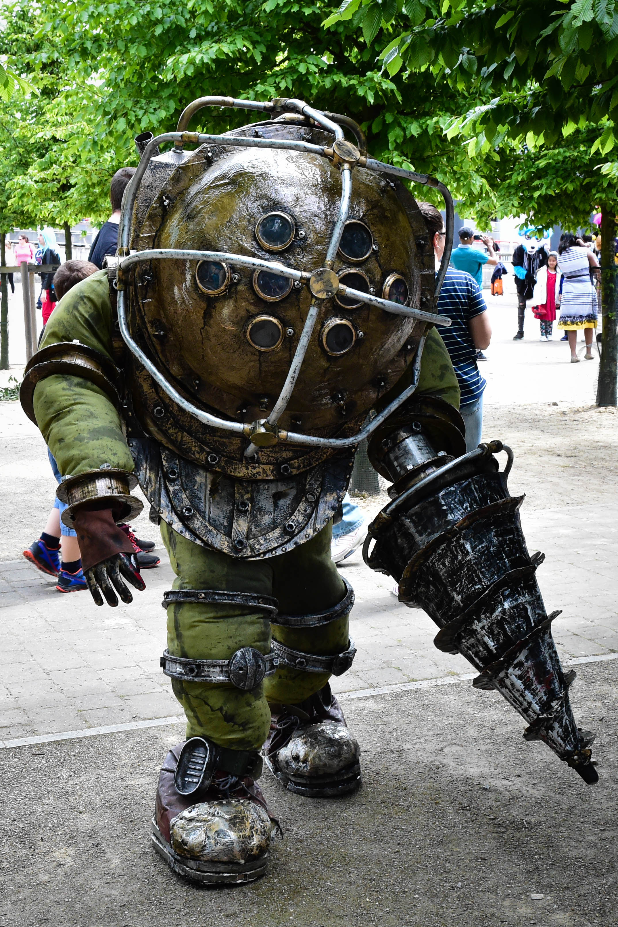 Cosplay at MCM London Comic Con 2015.